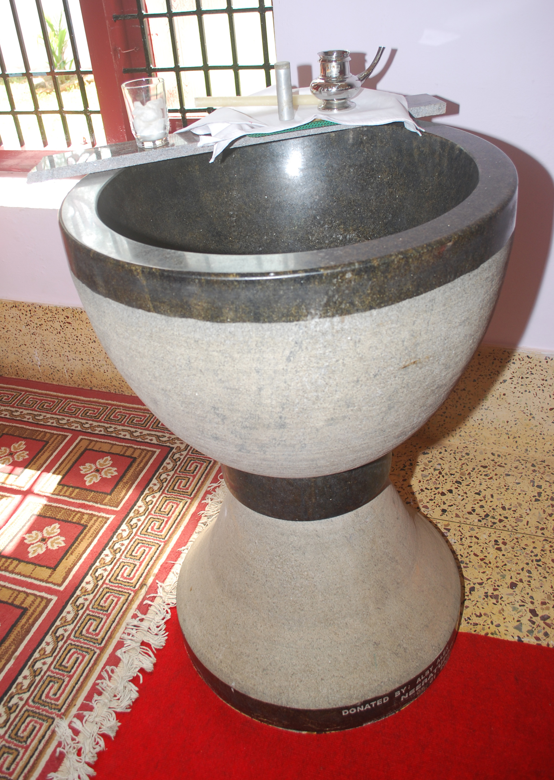 The Baptismnjana Snanam (Bath of Wisdom) ritual this large stone made buckets were found in churches